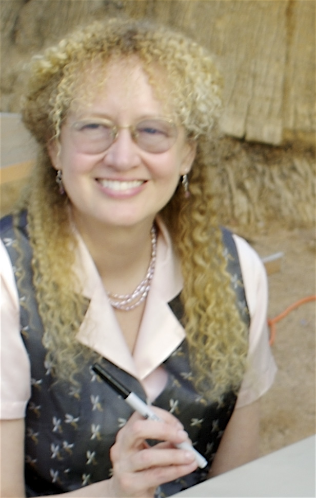 Picture of